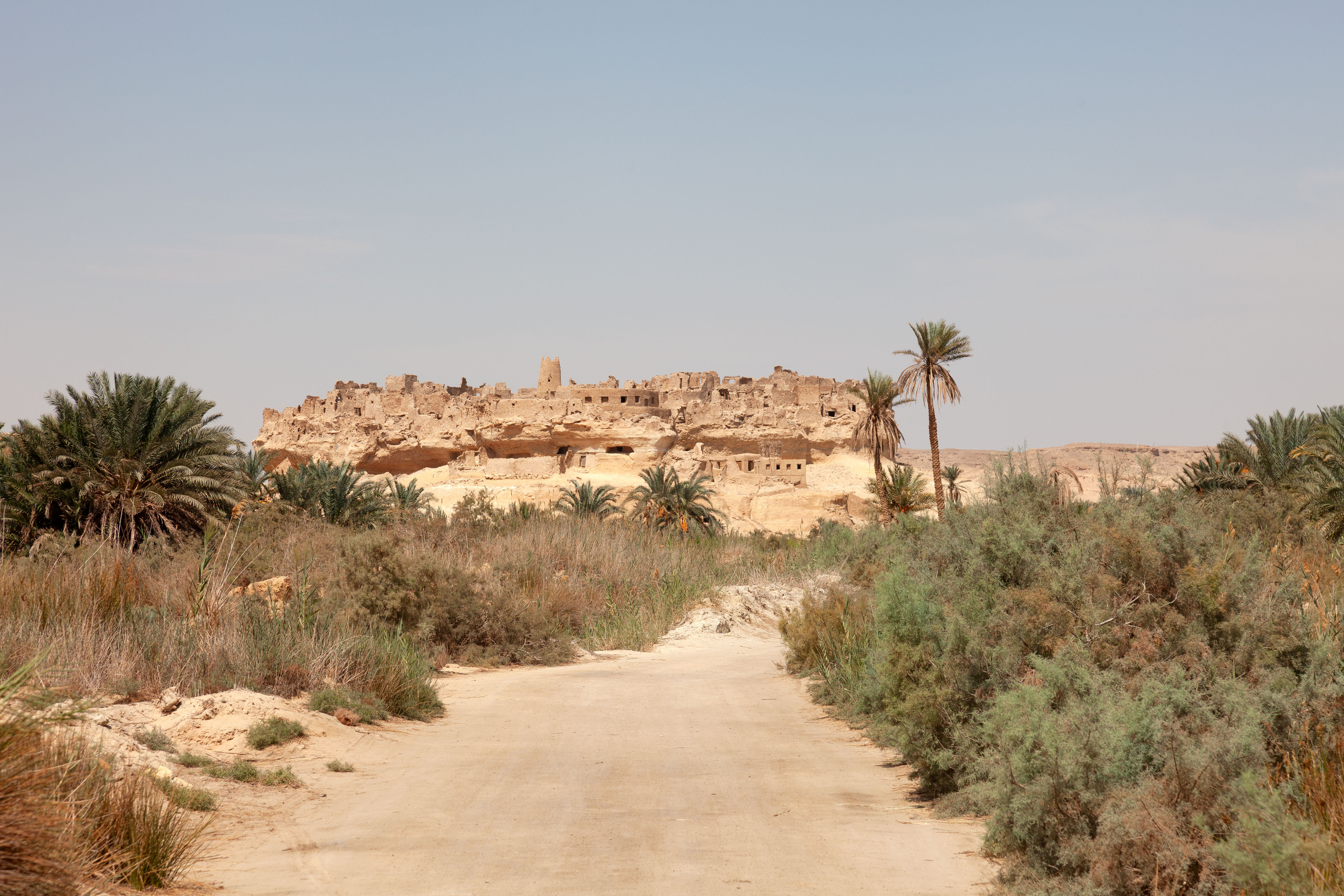 Village hill of Qarat Umm el-Sugheir, Siwa, Egypt